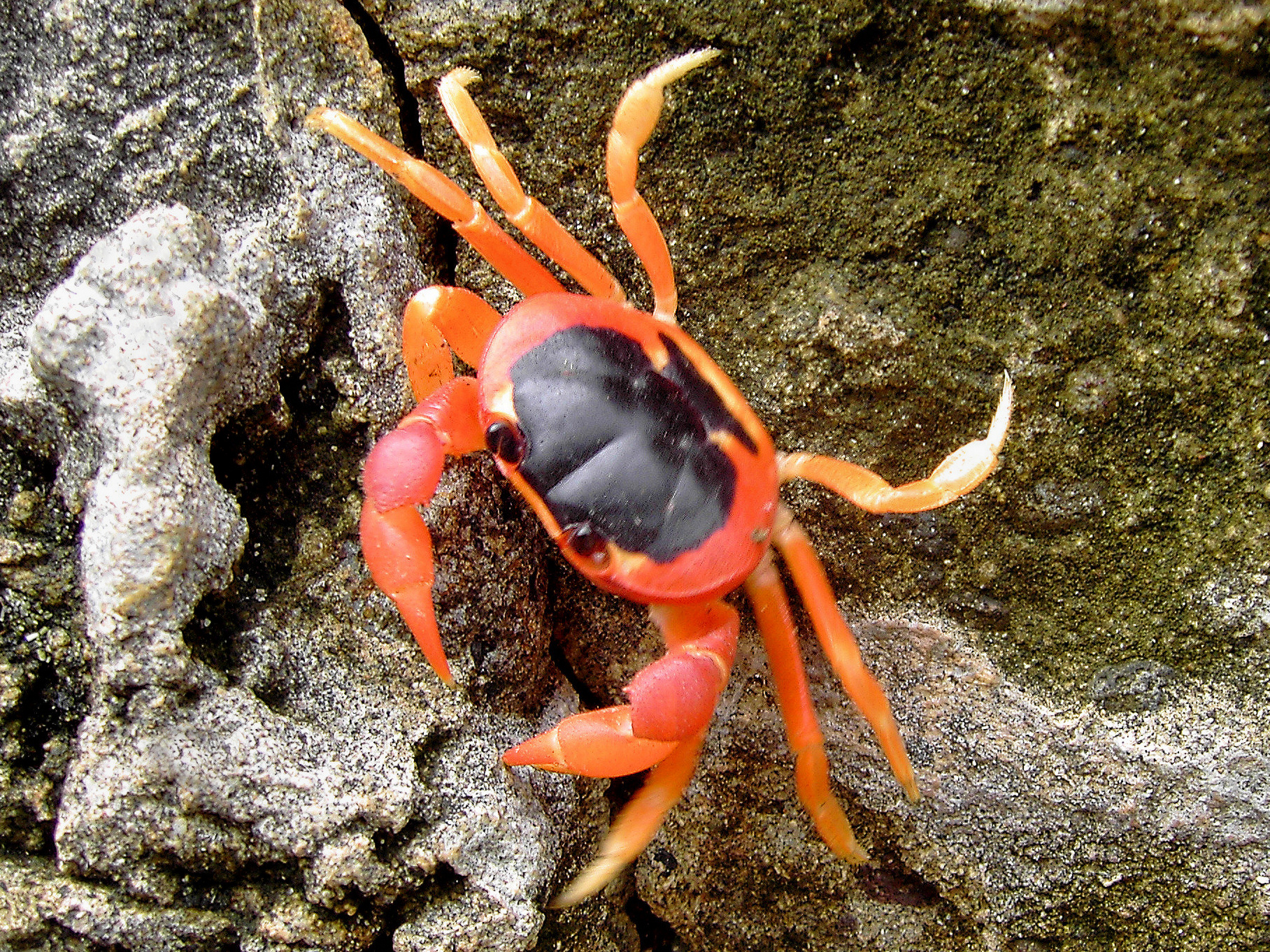 Blackback land crab at Woodford Hill Beach, Dominica, W.I.